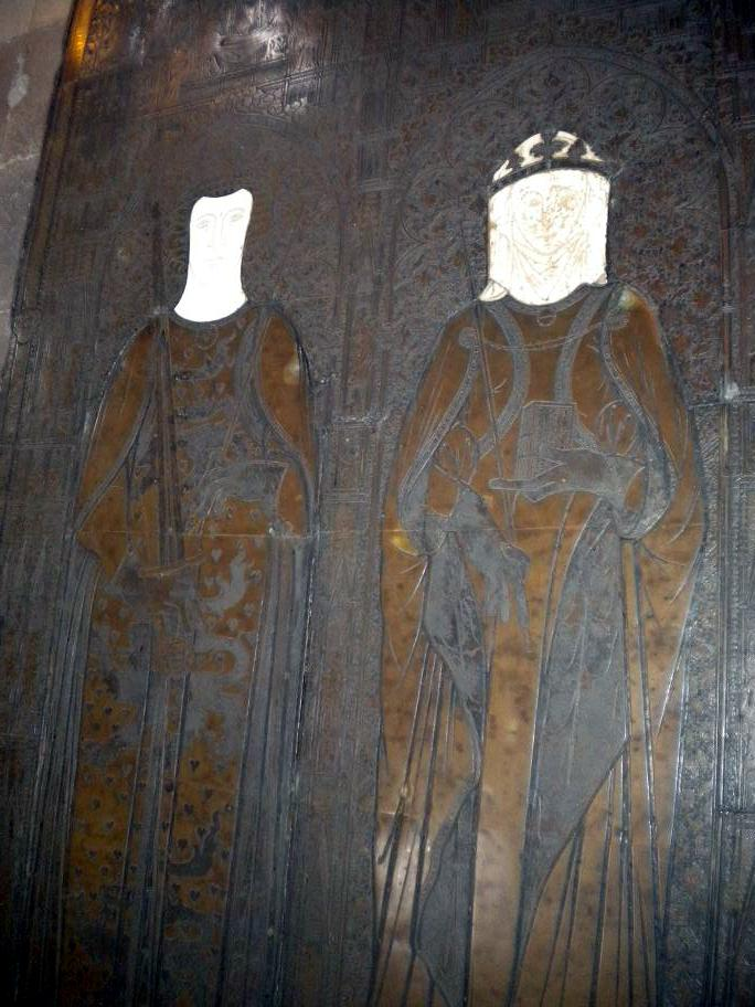 Grave of King Eric Meanwith and Queen Ingiburga of Denmark at St. Benedict’s ChurchPlace: Ringstead, Denmark